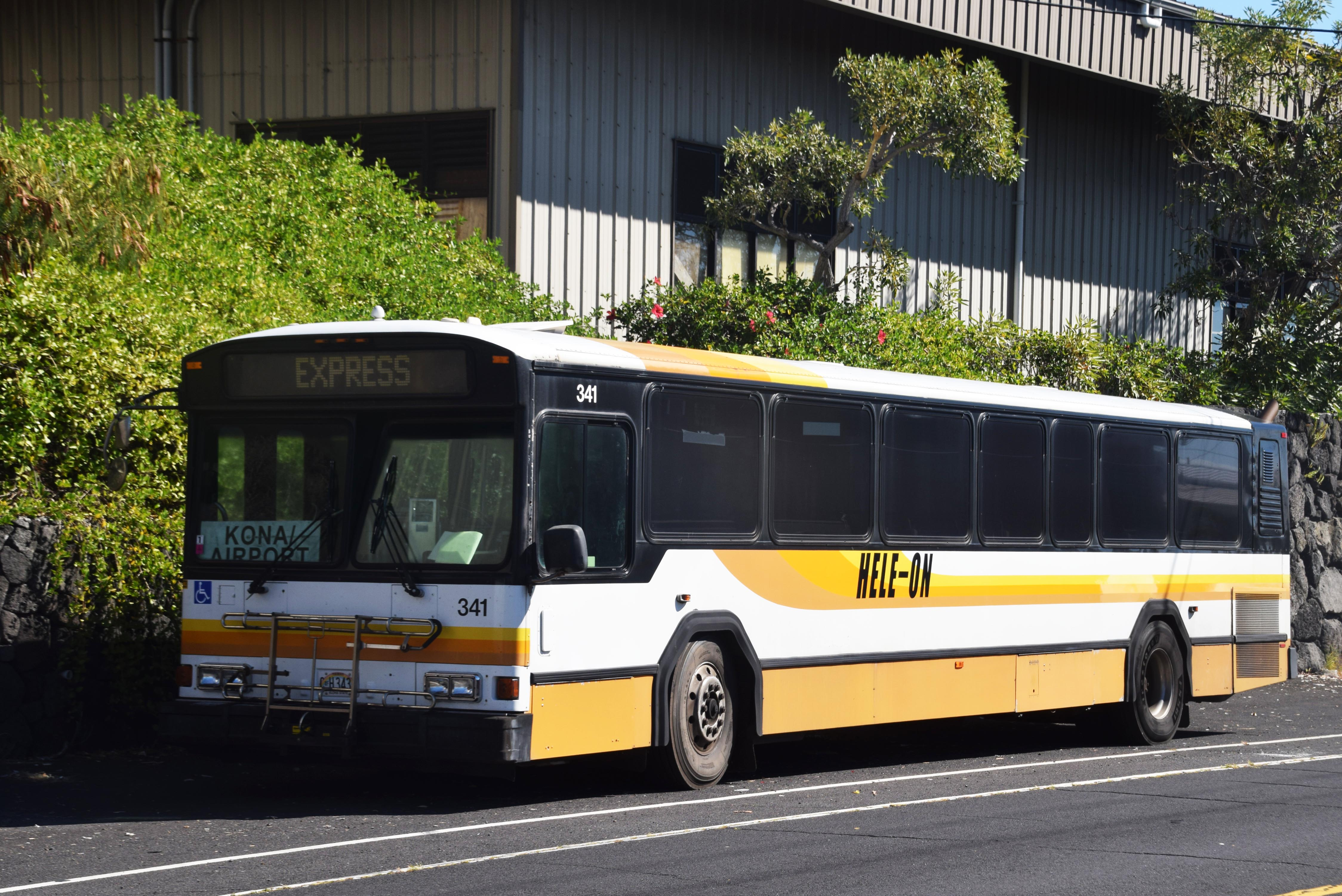 Hele-On Bus in Kailua Kona, the Big Island, Hawaii